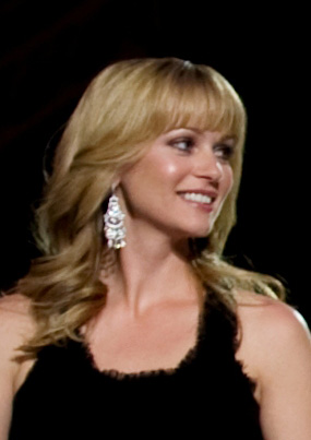 A.J. Cook thanks the audience for their participation in the National Memorial Day Concert on the West Lawn of the U.S. Capitol in Washington, D.C on May 30, 2010.